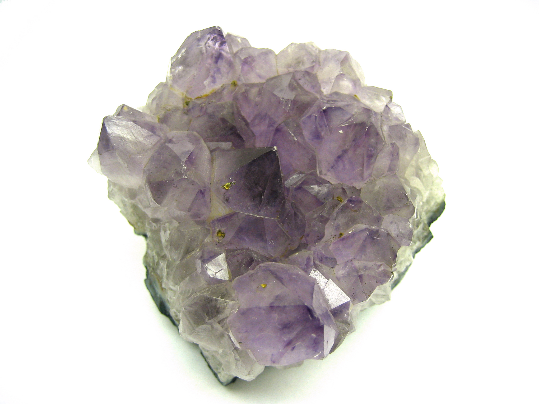 Macro of Amethyst Quartz. It is 3 inches (8 cm) long by 2 inches (5 cm) high.